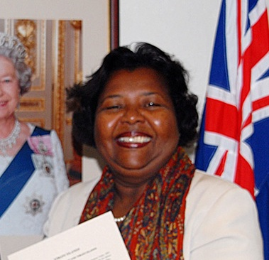 Dancia Penn when being sworn in as Deputy Premier of the British Virgin Islands in 2007.